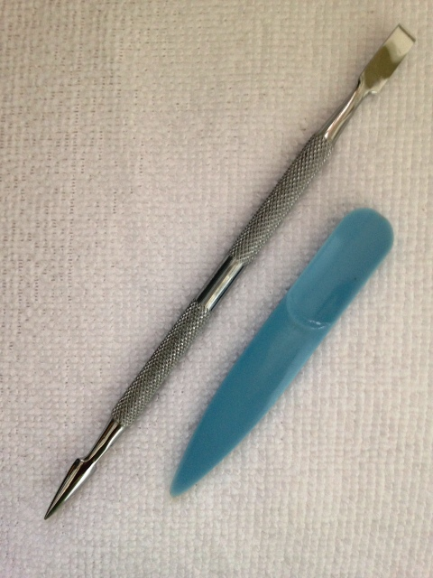 cuticula pusher